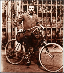 Paul Frosch about 1910